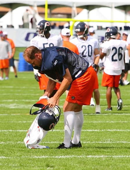 Brad Maynard at the Chicago Bears 2007 Training Camp.